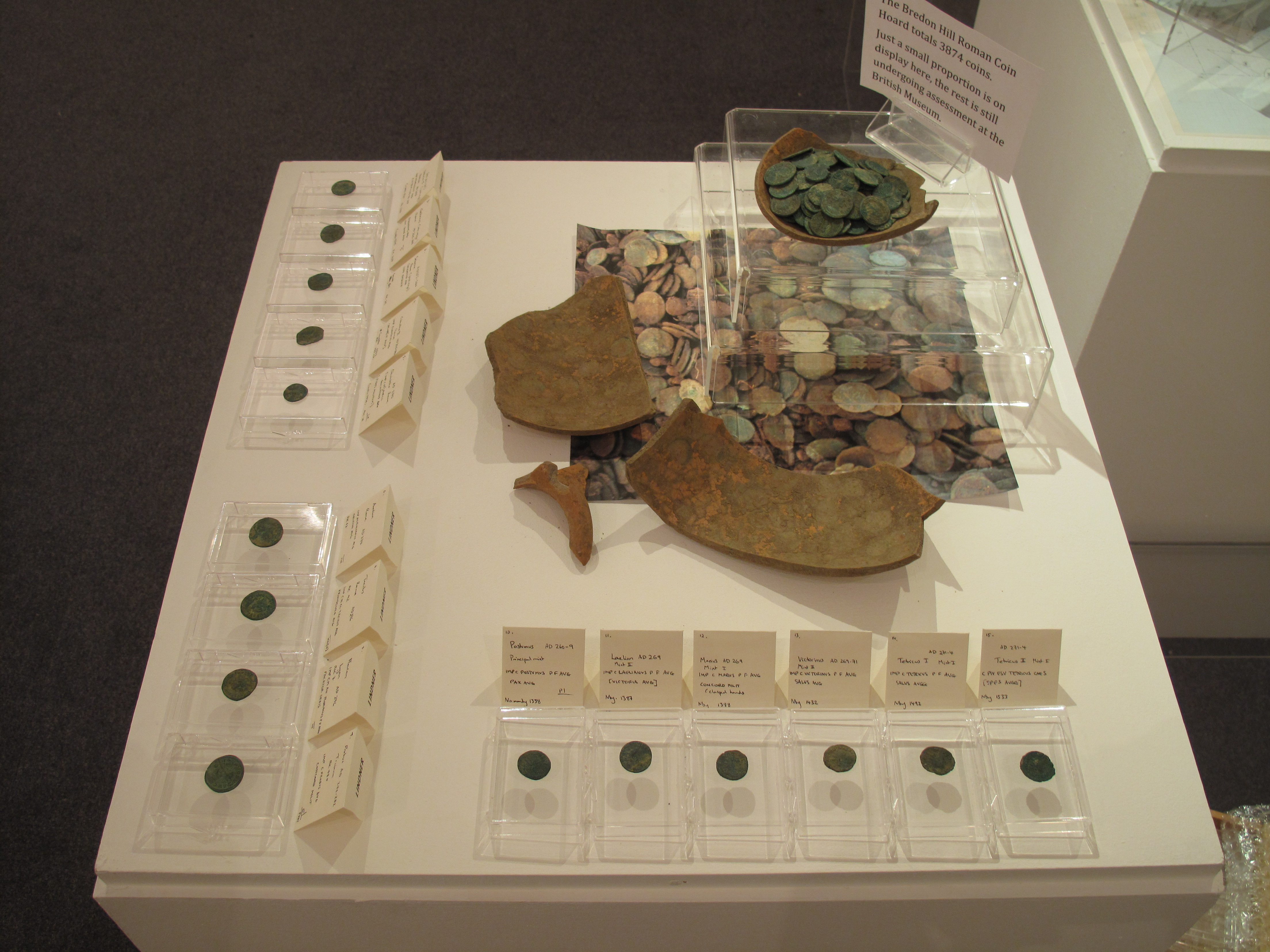 The Bredon Hill Hoard on display at the Worcester City Art Gallery & Museum.